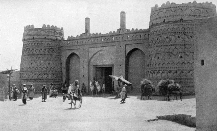 The Masjid gate in Kerman